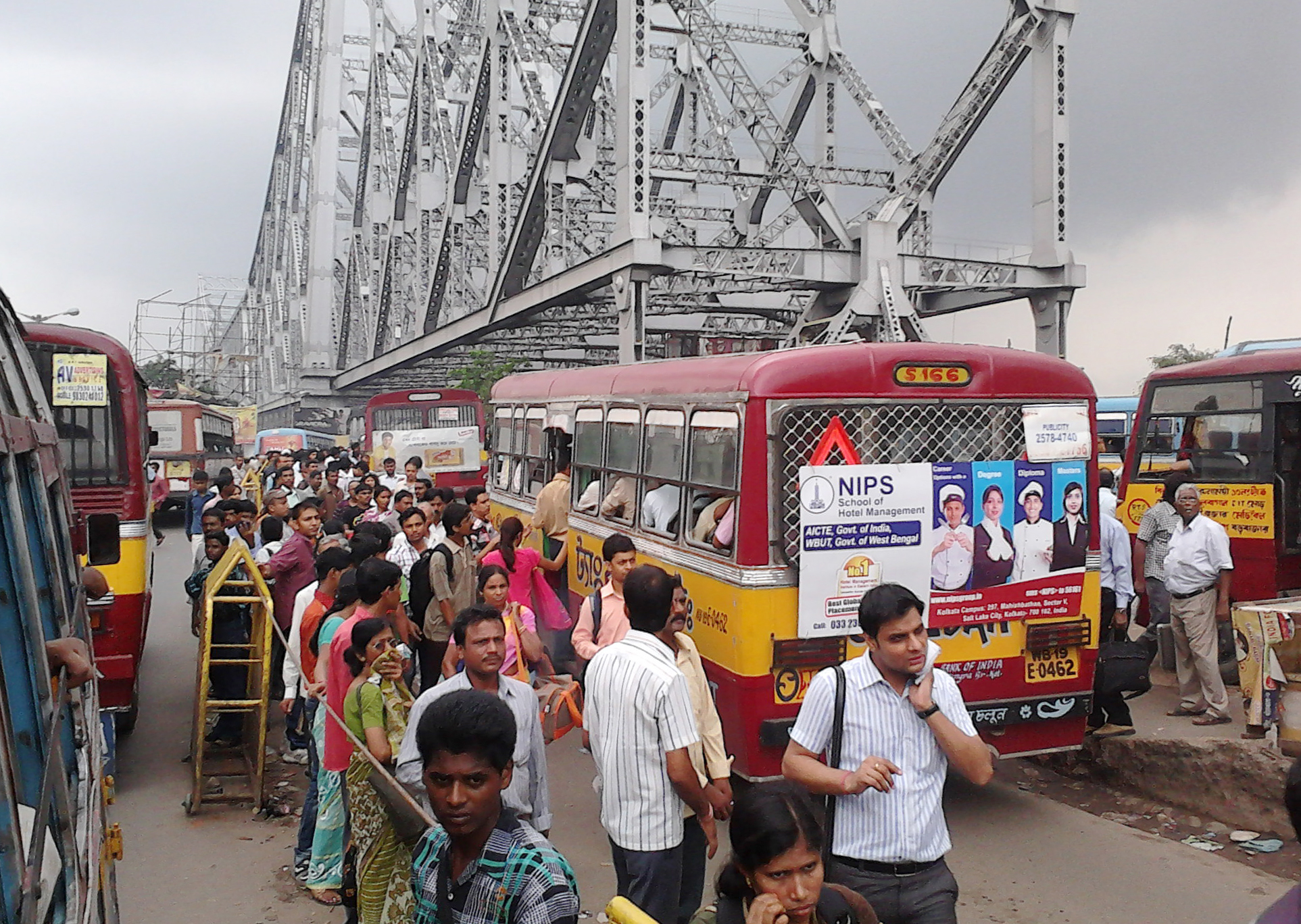 Howrah railway, bus station area.